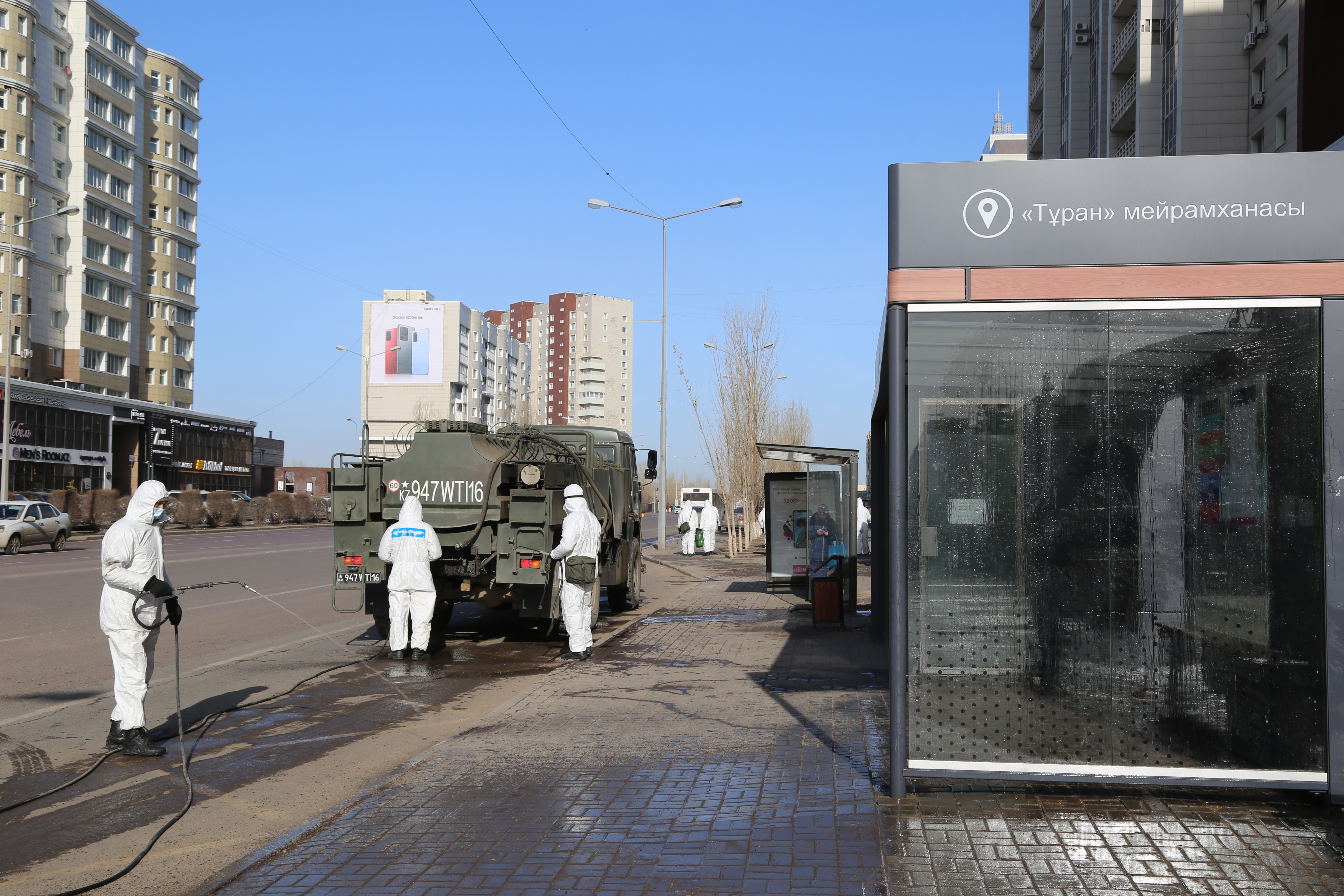 Quarantine in Nur-Sultan. 2020-03-26